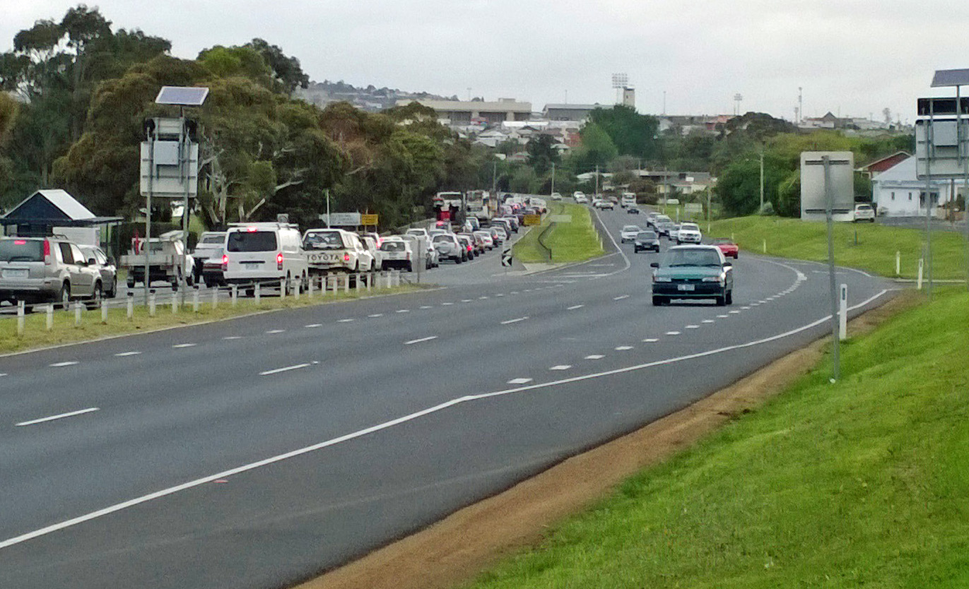 The Brooker Highway at Montrose during morning peak times during the Royal Hobart Show